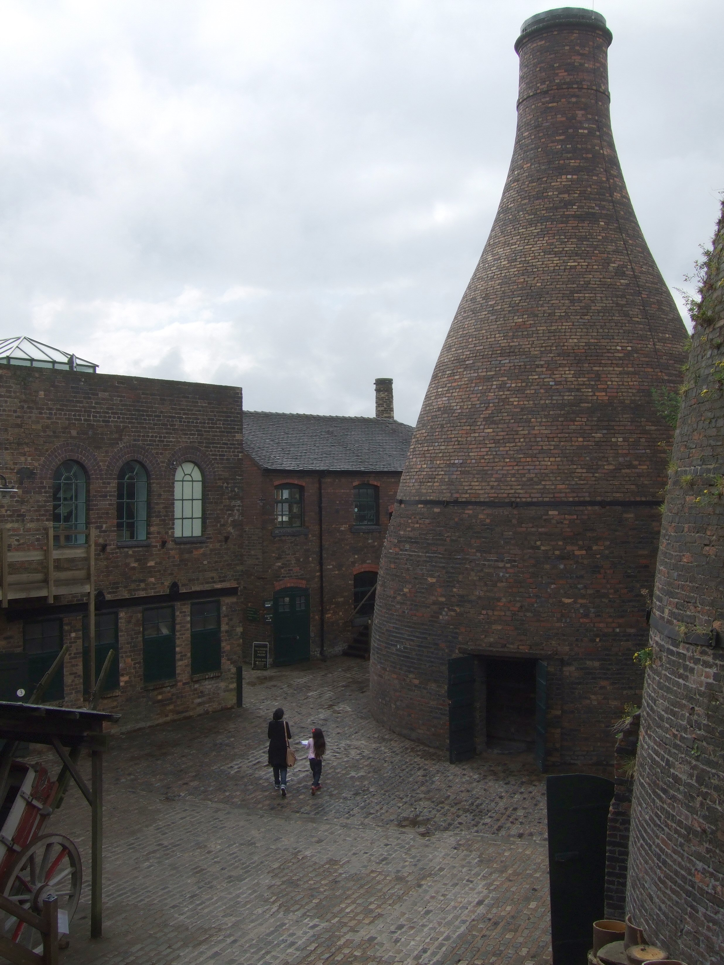 The Gladstone Pottery Museum is a grade II* listed site in Stoke-on-Trent, with many protected features including the bottle kilns.